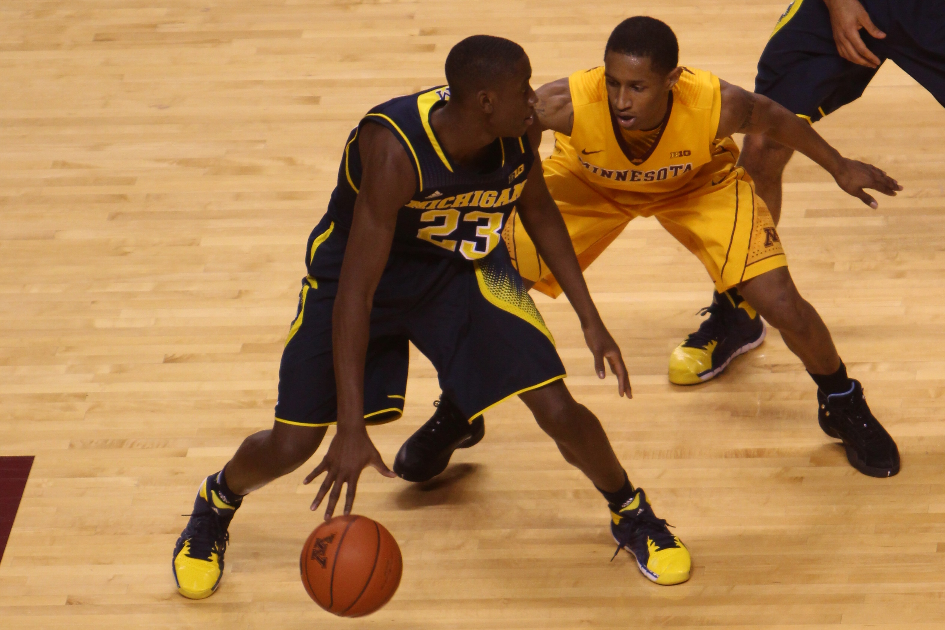 Caris LeVert at Williams Arena